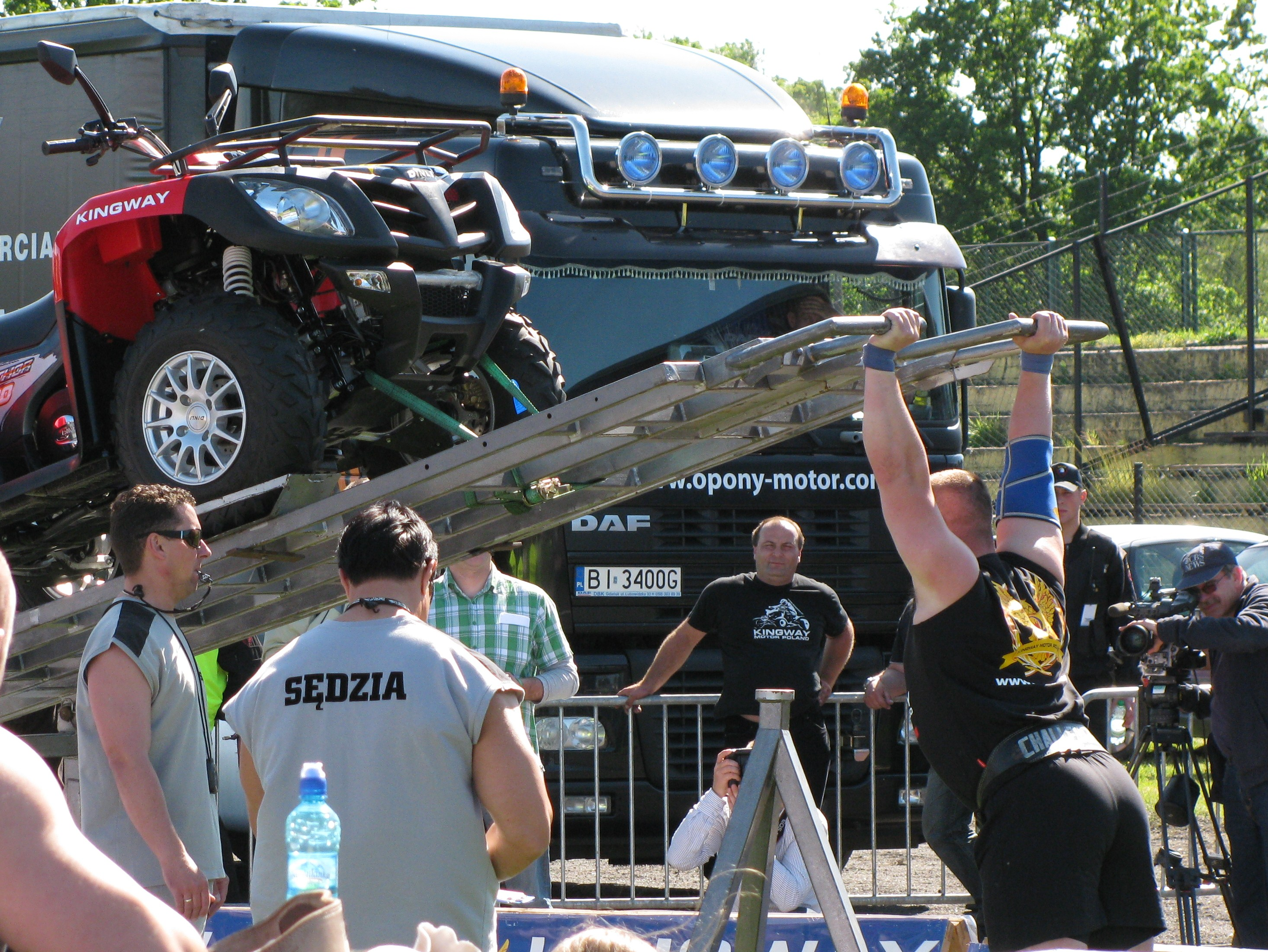 Strongmen event: the Viking Press.